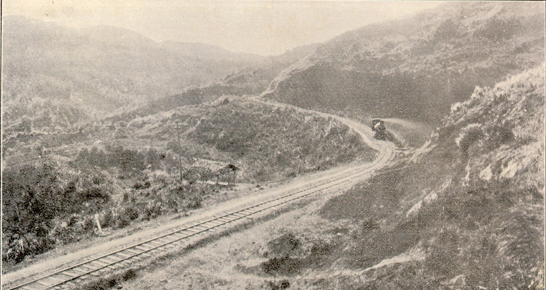 The view of Kiroten